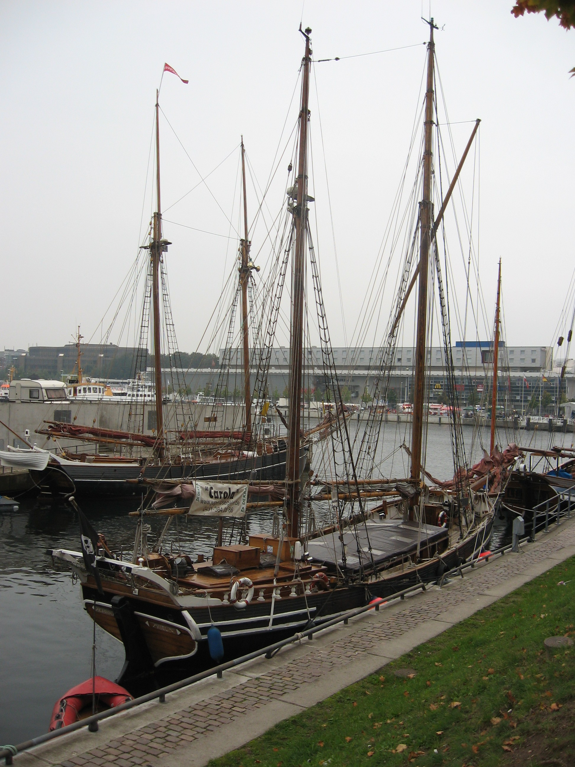 Restored Baltic ketch Carola, Kiel